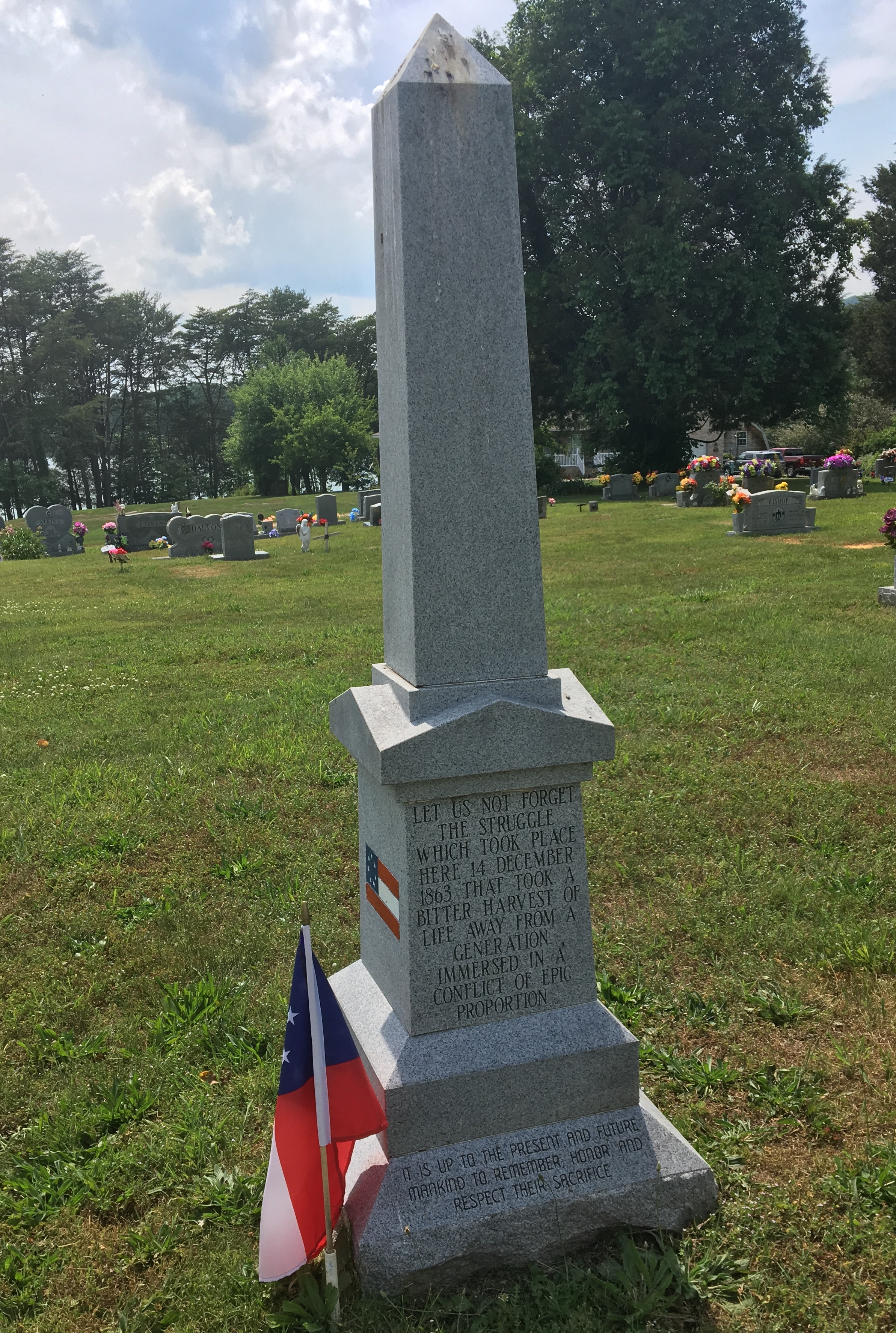 A memorial for the Battle of Bean’s Station at Bean Station Cemetery in Bean Station, Tennessee. This photo was taken in May 2019.